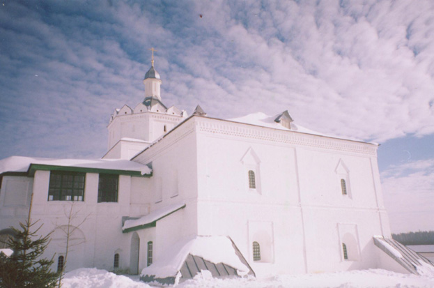 Troitse_Boldin_Monastery. Vvedenskaja church.